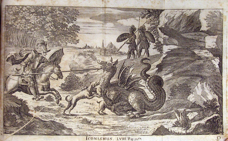 Le combat de Dorde de Gozon contre le Dragon de Rhodes. (Gaspar SCHOTT, Physica curiosa …, 1697, pl. LVIII)